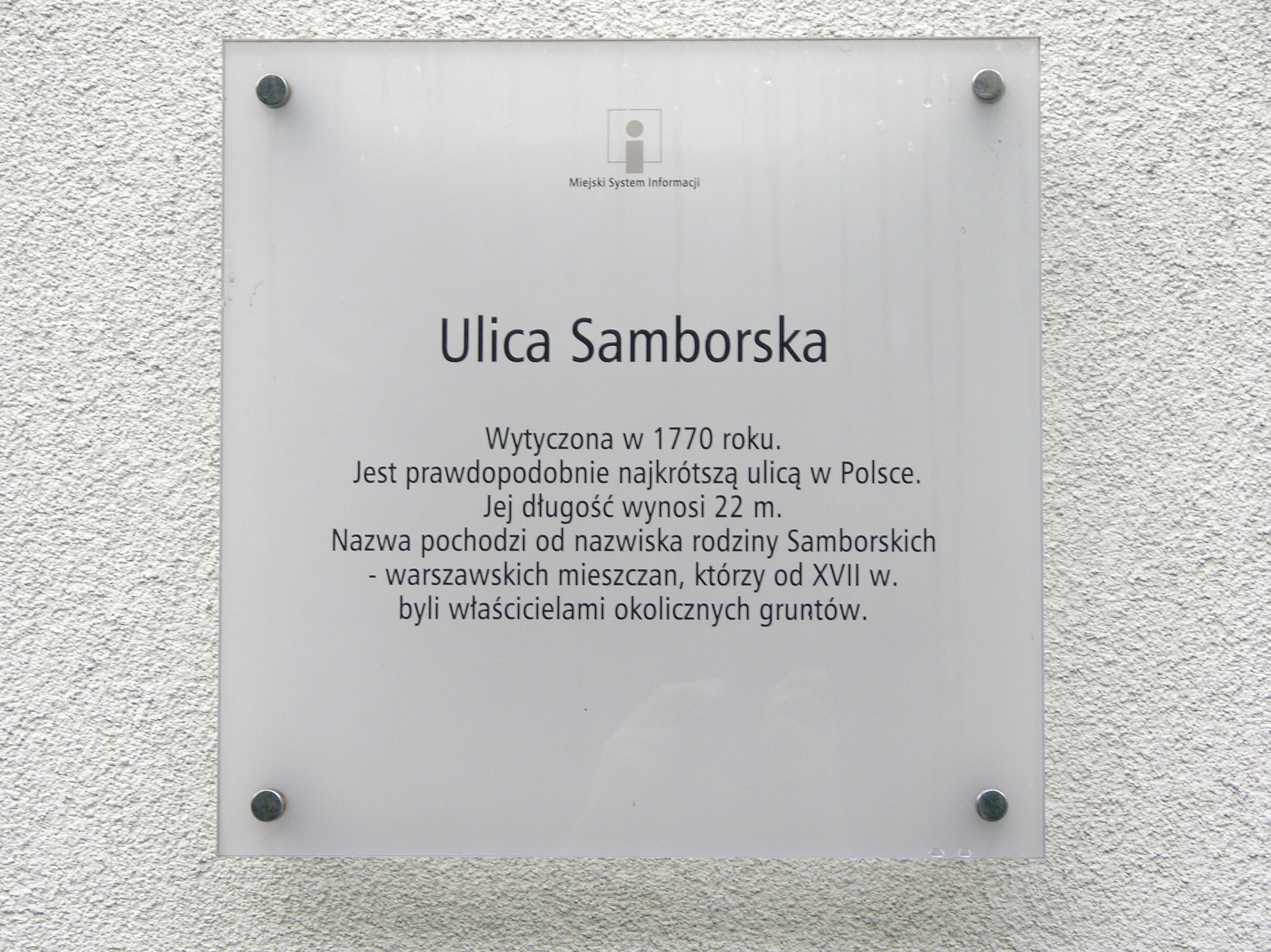 Warsaw City Information plaque on Samborska Street in Warsaw